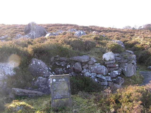 Prince Connell's Grave A well-preserved gallery grave , dated between 2000 and 1500 BC, on a tranquil windblown site among the heather-covered slopes of Thur Mountain, overlooking a tiny lough; it's known locally as Prince Connell's Grave.